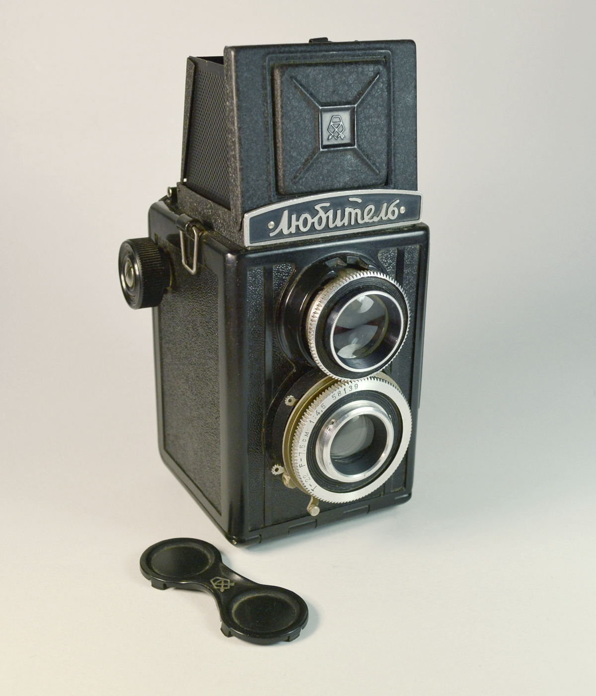 USSR "Lubitel" kamera 1950